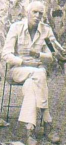 The South African Mercenaries being interviewed by Local Journalist